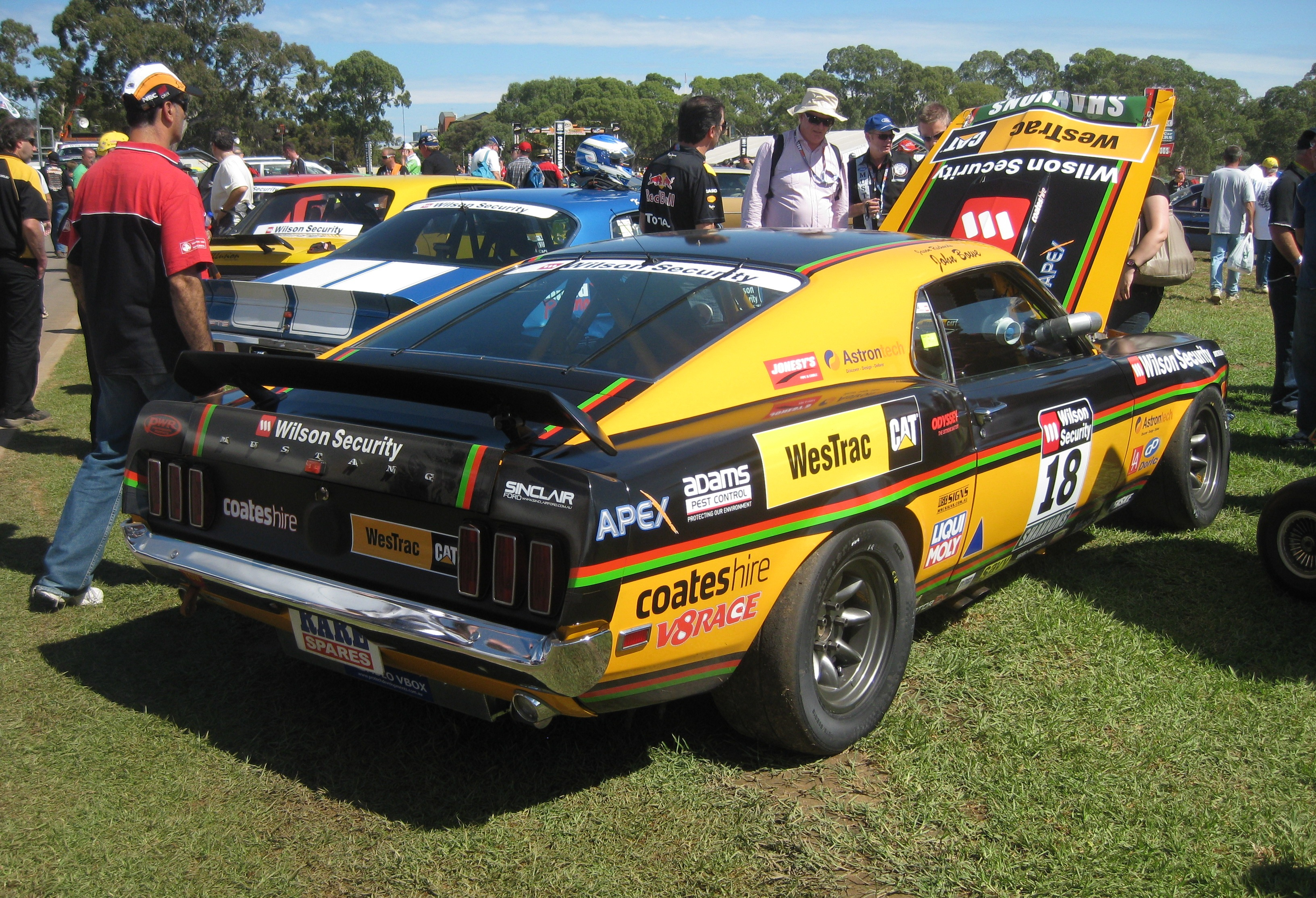 1969 Ford Mustang of John Bowe at the Adelaide Parklands Circuit for the opening round of the 2012 Touring Car Masters